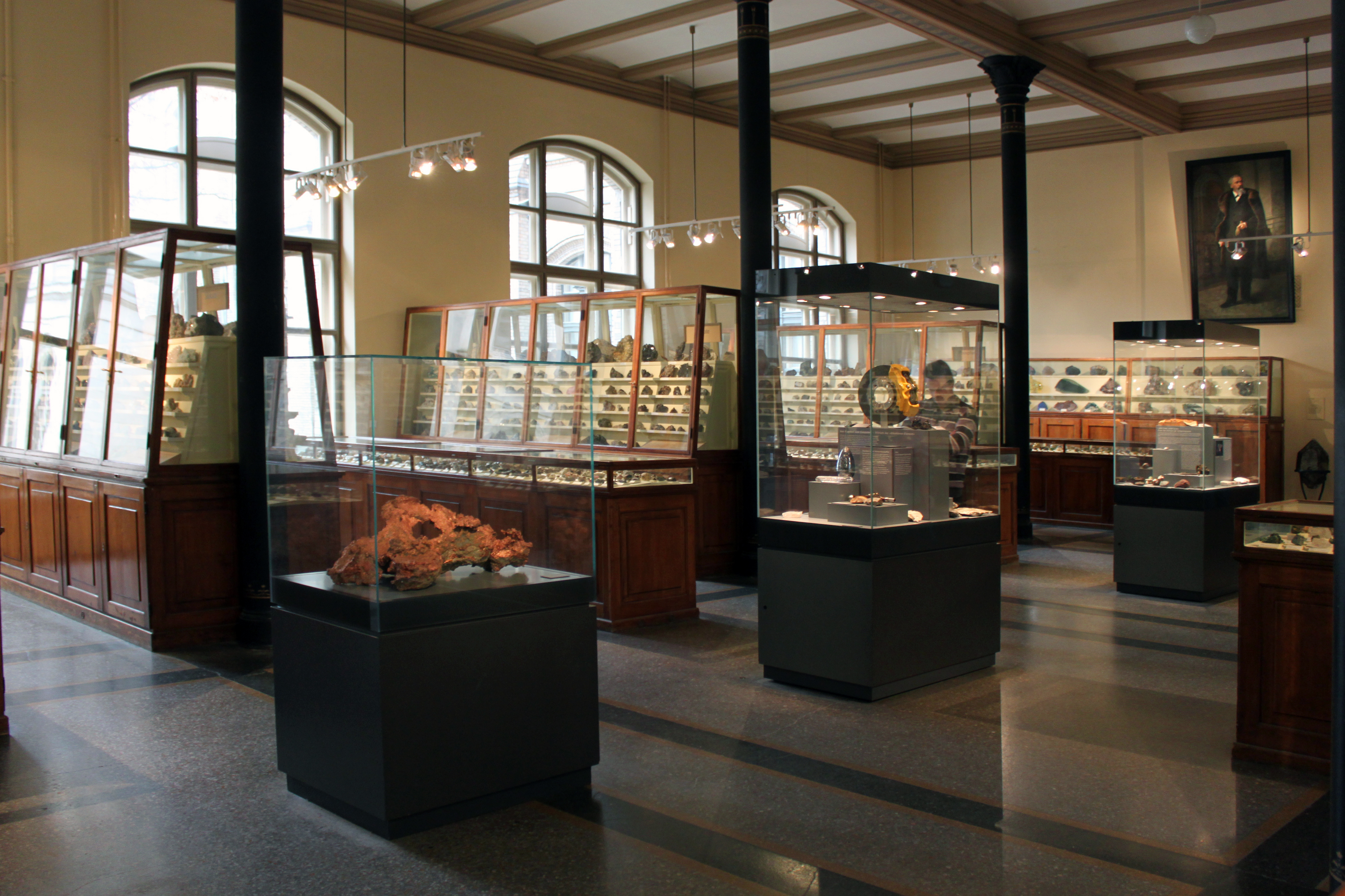 Museum of Natural History Berlin, Mineral Collection